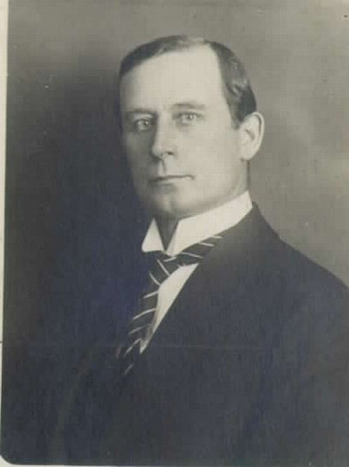 Mihajlo Rostohar (1878-1966), Slovene officer and psychologist